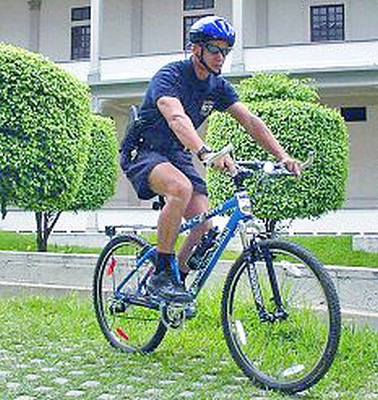 Police officer on a bicycle in El Salvador